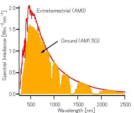 Spectral Irradiance of Sunlight (smoothed) Reference